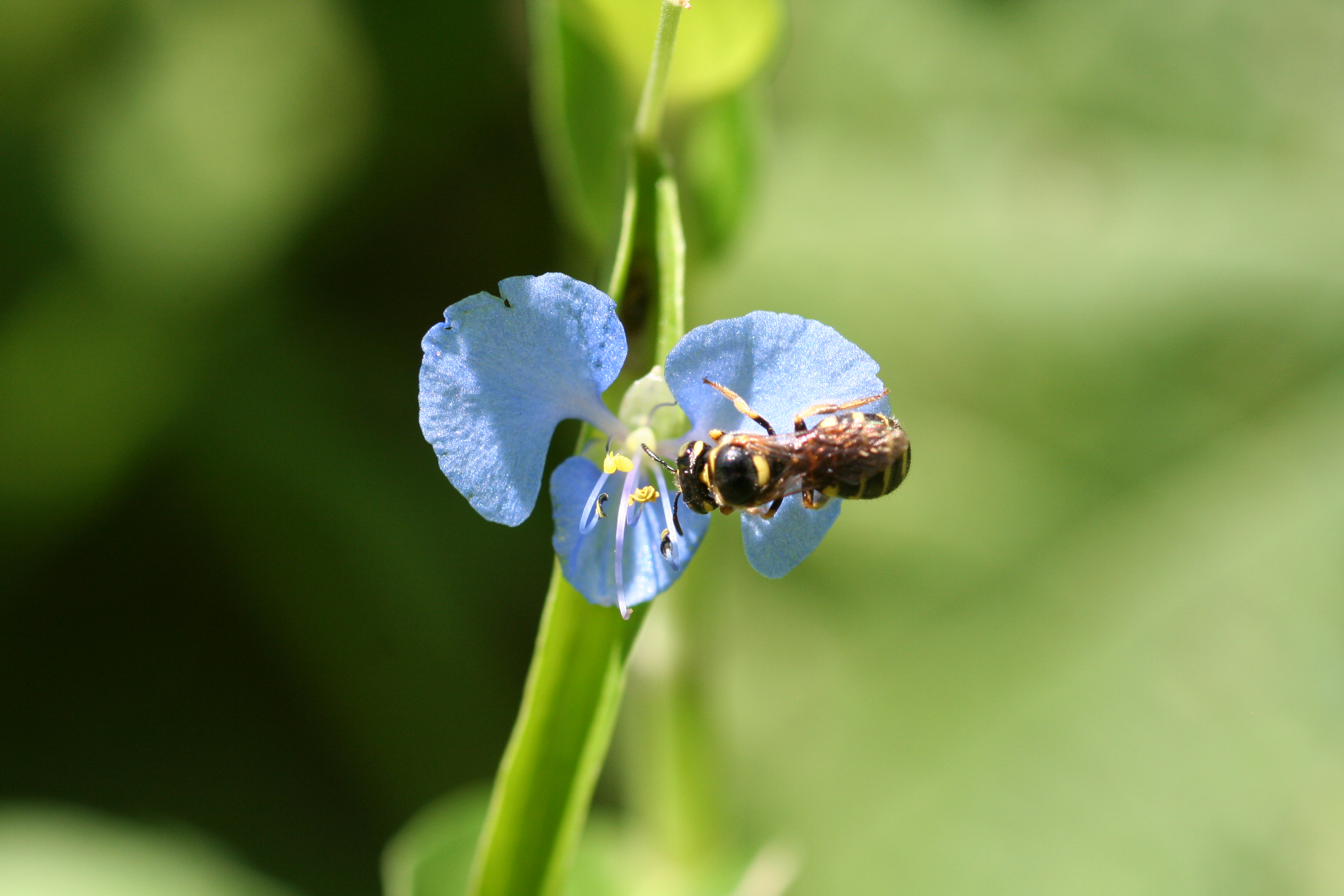 Flowering specimen of Commelina diffusa Burm. f. with visiting pollinator in Xishuangbanna, Yunnan, China; photo taken at about noon; a specimen was taken with the collection number Layton 149.